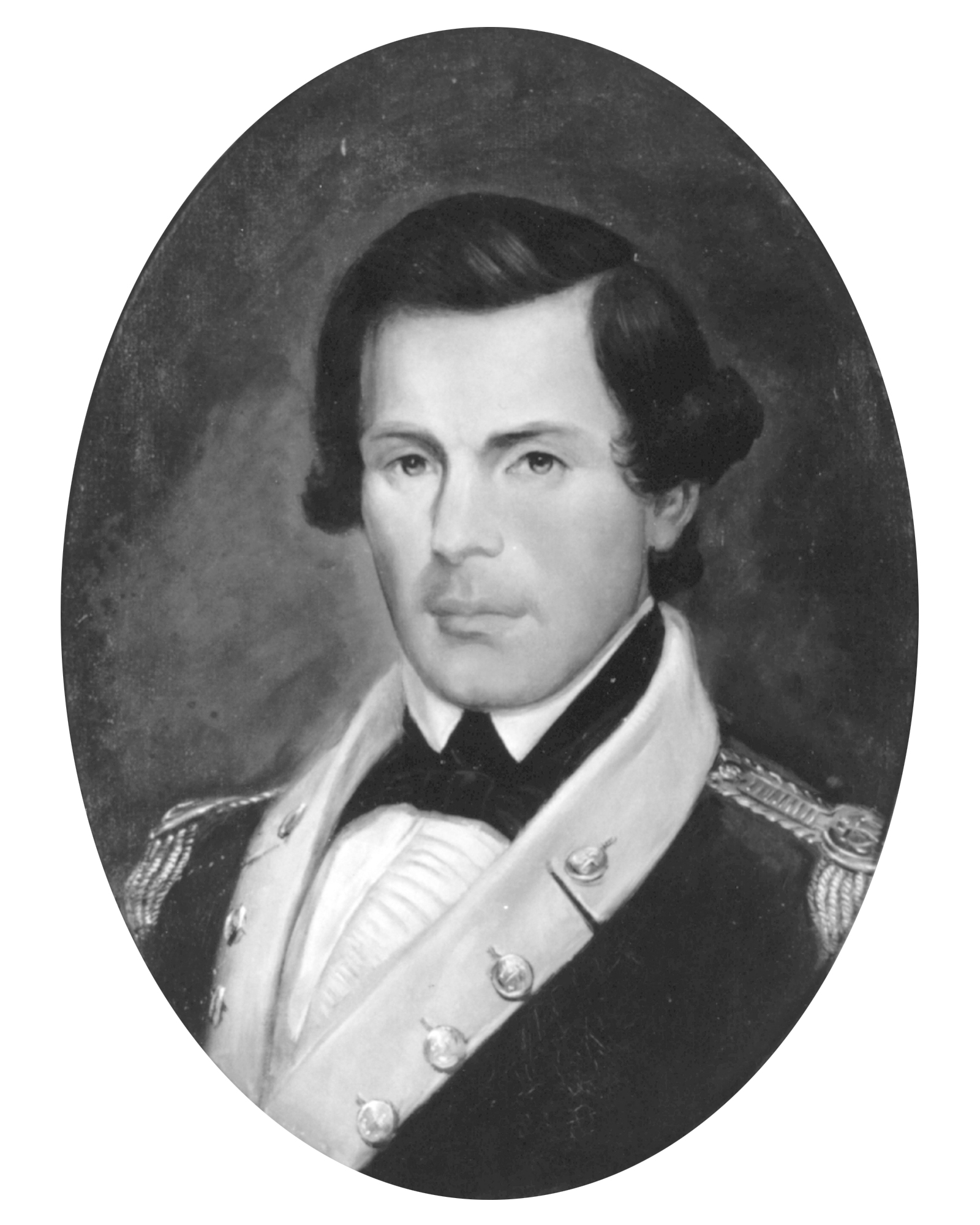 Samuel Nicholas, first Commandant of the United States Marine Corps, 28 Nov 1775 - Aug 1783.